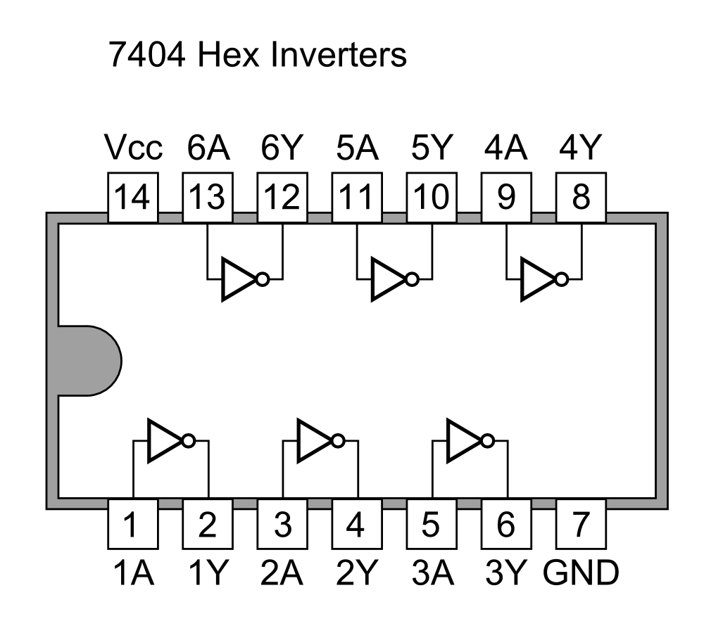 TTL pin asignment of 7404 Hex Inverters